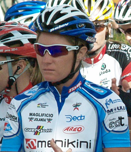 Australian cyclist Rochelle Gilmore (Menikini Selle Italia) at the start of the 2008 Geelong World Cup, Geelong, Australia.